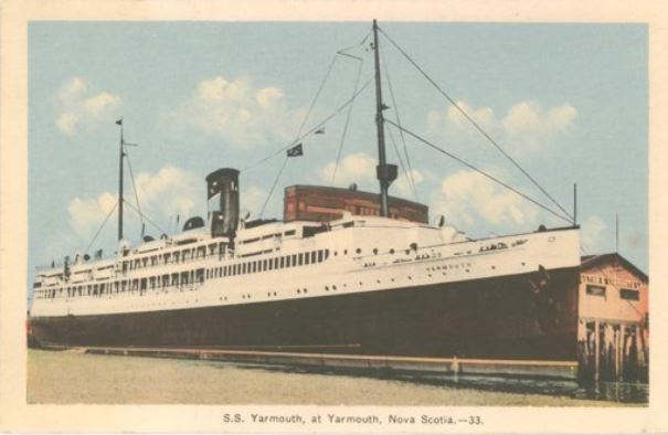 SS Yarmouth (1926), at Yarmouth NS – 33. Eastern Steamship Lines provided its Boston–Yarmouth service by means of the Yarmouth Line (Boston & Yarmouth Steamship Co., Ltd.), which had become an Eastern subsidiary in 1917. In 1954 sold for service as a cruise ship under the Panamanian flag with Eastern Shipping Corporation of Miami. Yarmouth was renamed Yarmouth Castle. Renamed Queen of Nassau for a contract with the government of the Bahamas. In 1956 Eastern renamed her back to Yarmouth Castle again. To complicate matters she was again given her original name of Yarmouth from 1961 for some cruises from Boston to Yarmouth. She was laid up 1966. Note: her sister ship SS Evangeline (1927) took on the name of Yarmouth Castle in 1961, she caught fire, and sank in 1965.